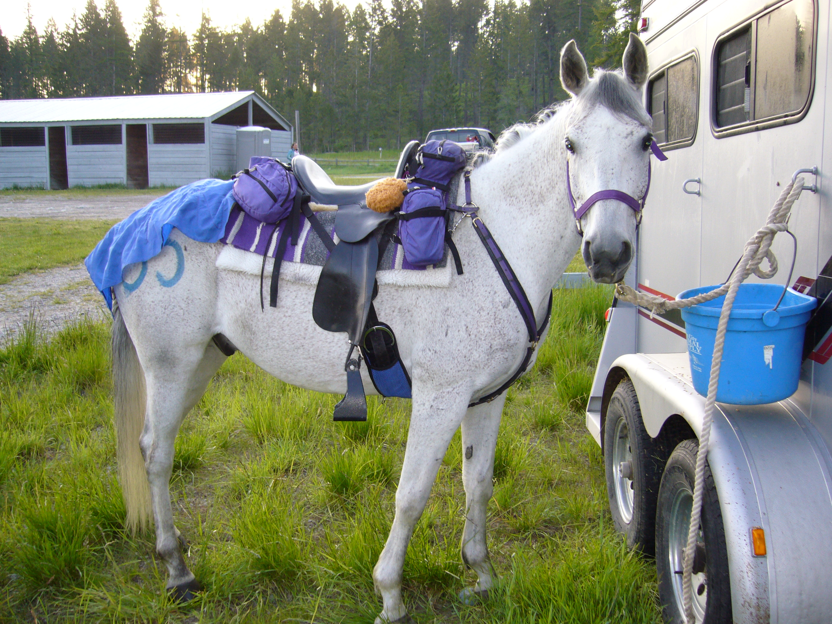 Horse standing ready at the trailer, first morning of a competitive trail ride.